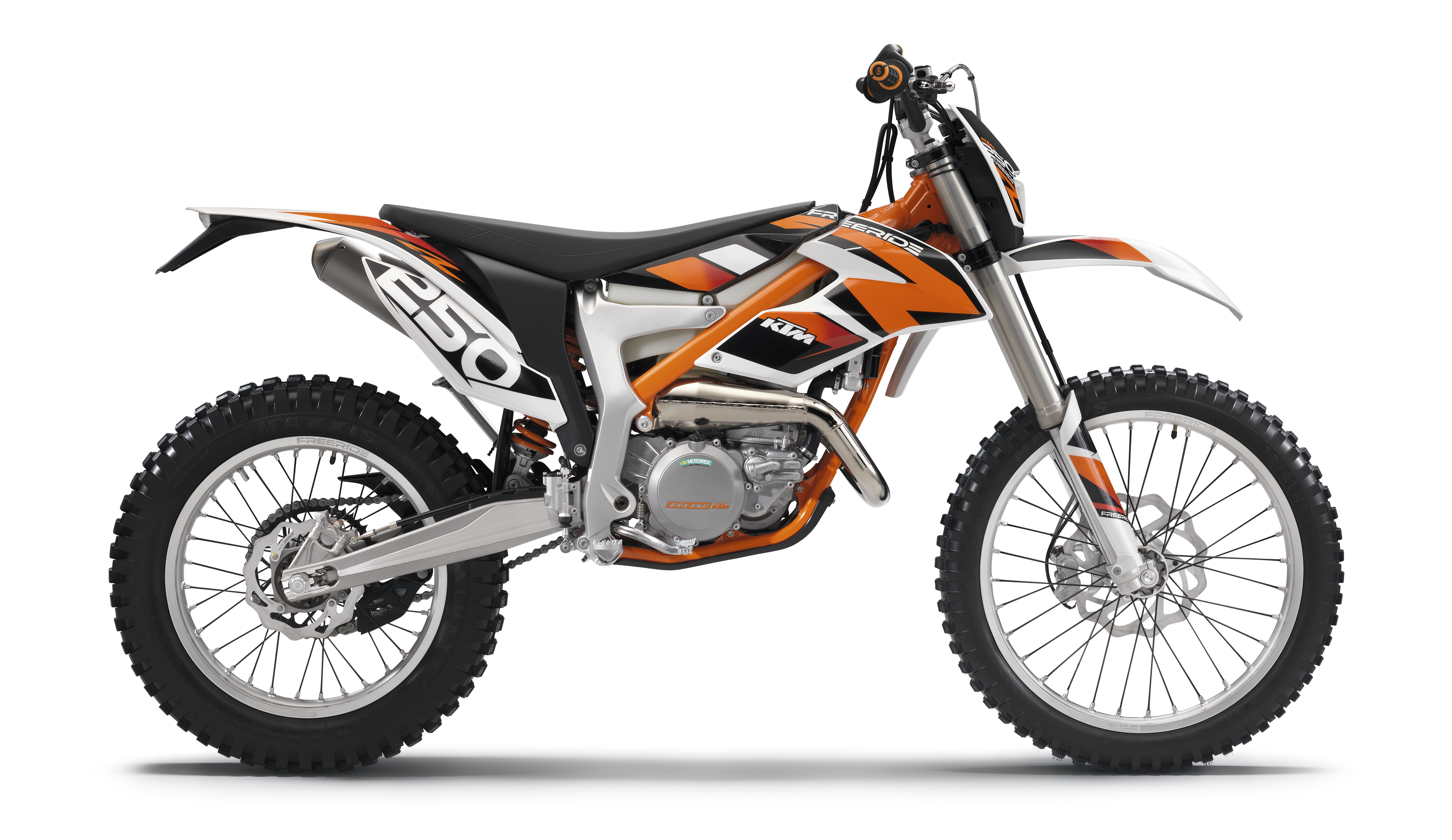 KTM 250 Freeride R